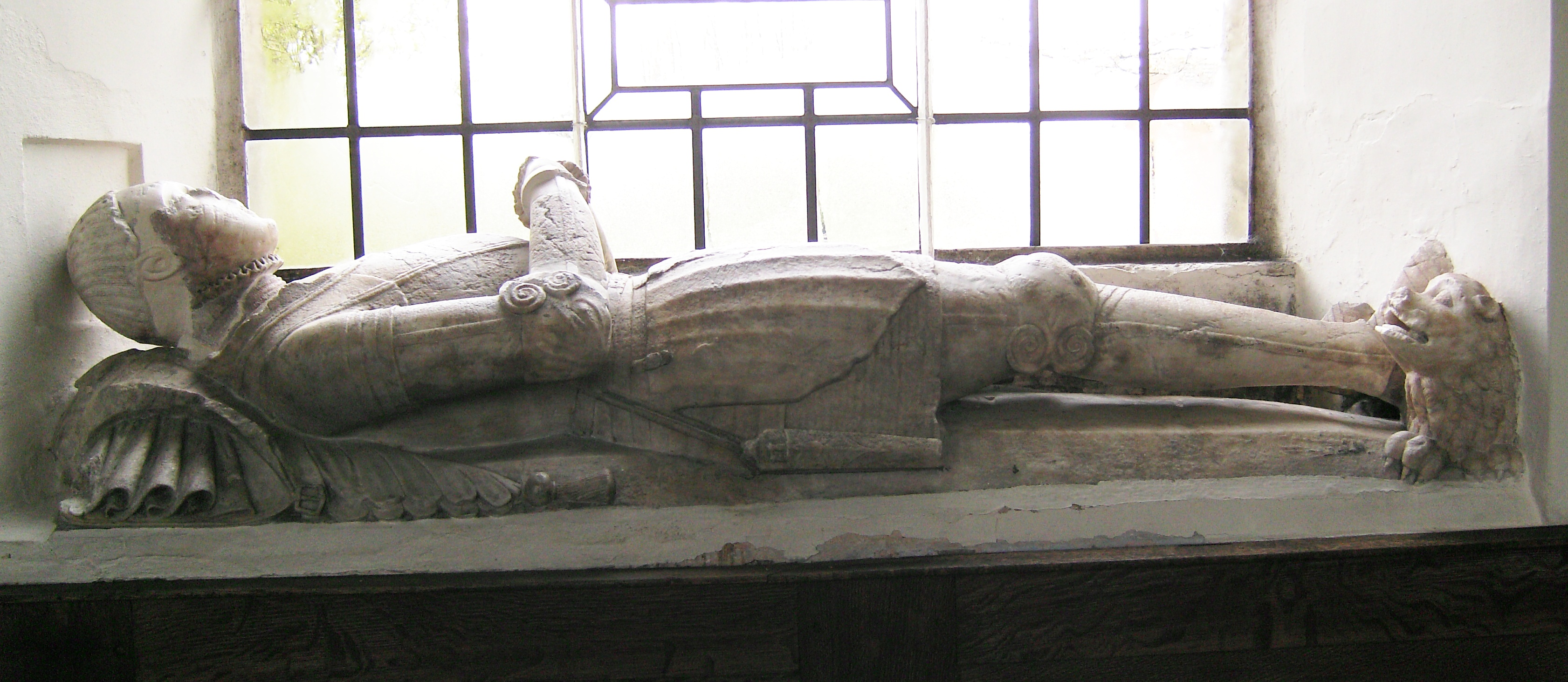 Effigy of Humphrey Swynnerton MP. Shareshill parish church, Staffordshire.